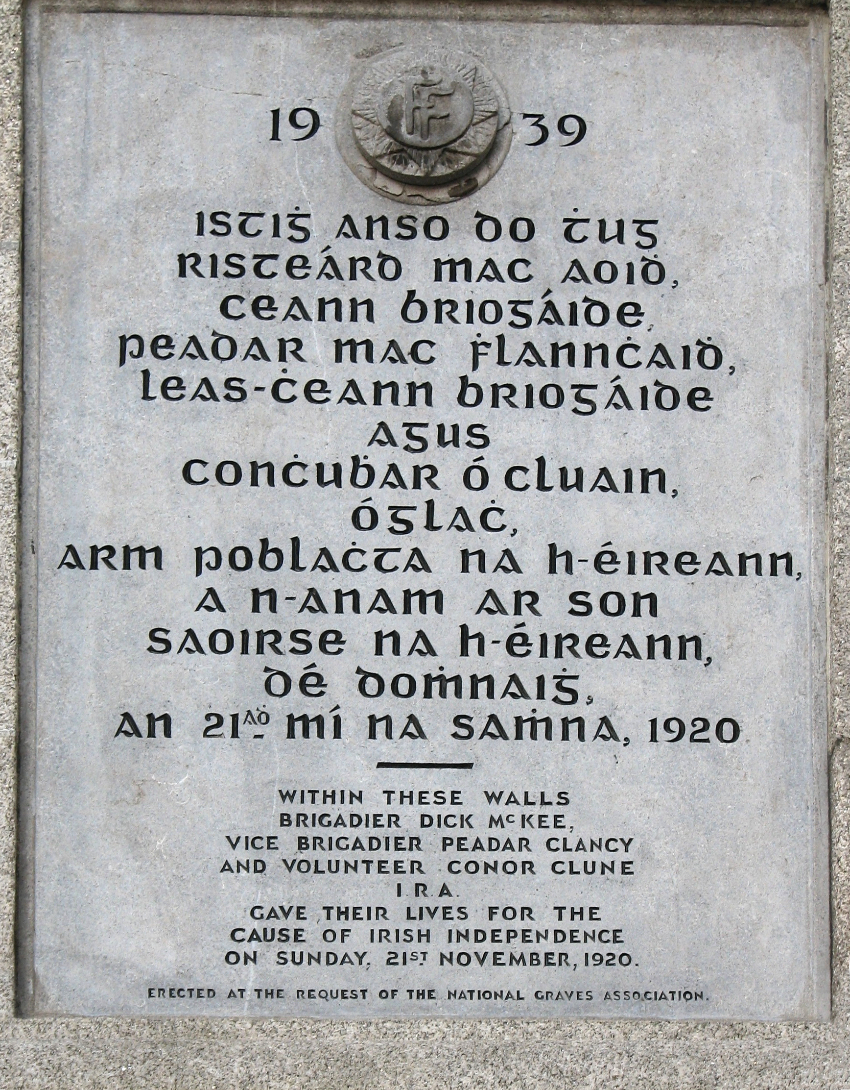 Commemorative plaque in memory of the Volunteers killed in Dublin Castle 1920 The current version of the image (shown above) is licensed as: GFDL-self The original version (which can be found in the file history below) is licensed as: PD-self